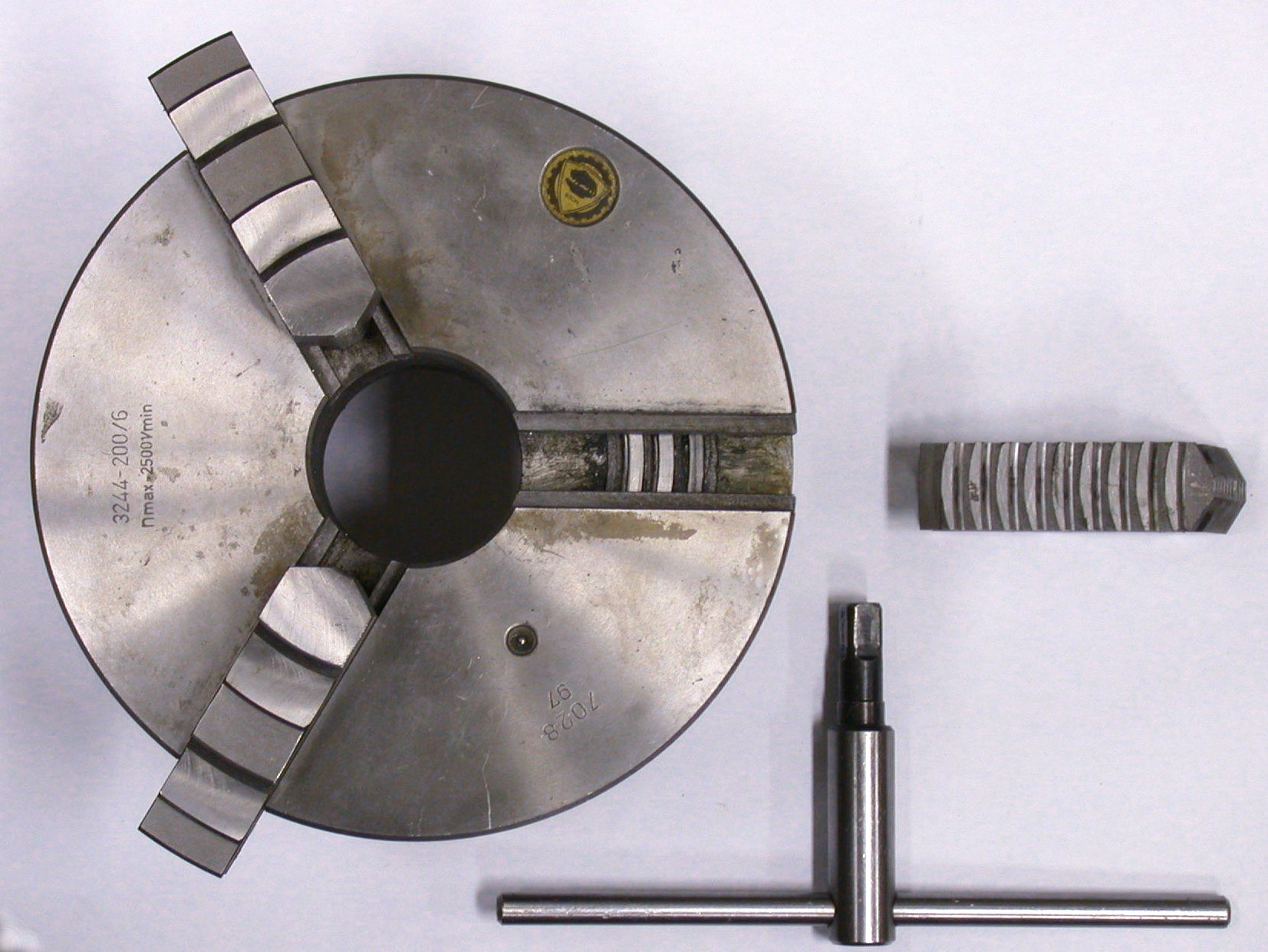 Three Jaw, self centering chuck. One jaw has been removed and inverted to show the teeth that engage with the scroll plate and thereby allow movement. Underneath the image is the chuck key used to rotate the scroll and therefore operate the chuck.